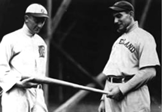 Ty Cobb and Napoleon Lajoie, photograph taken in 1910, during the Chalmers Award controversy